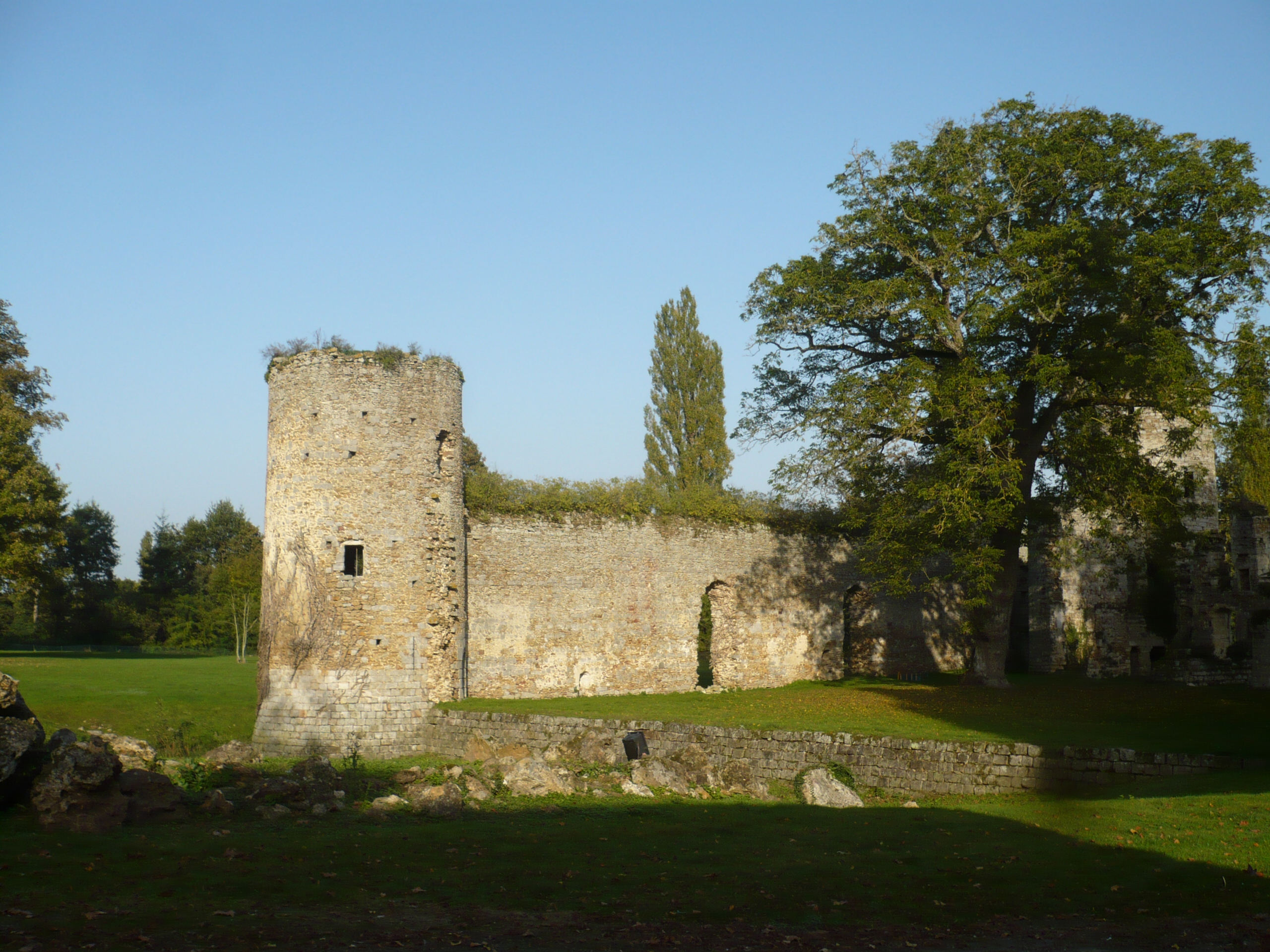 Ruins of Château royal du Vivier in Fontenay-Trésigny (Seine-et-Marne)